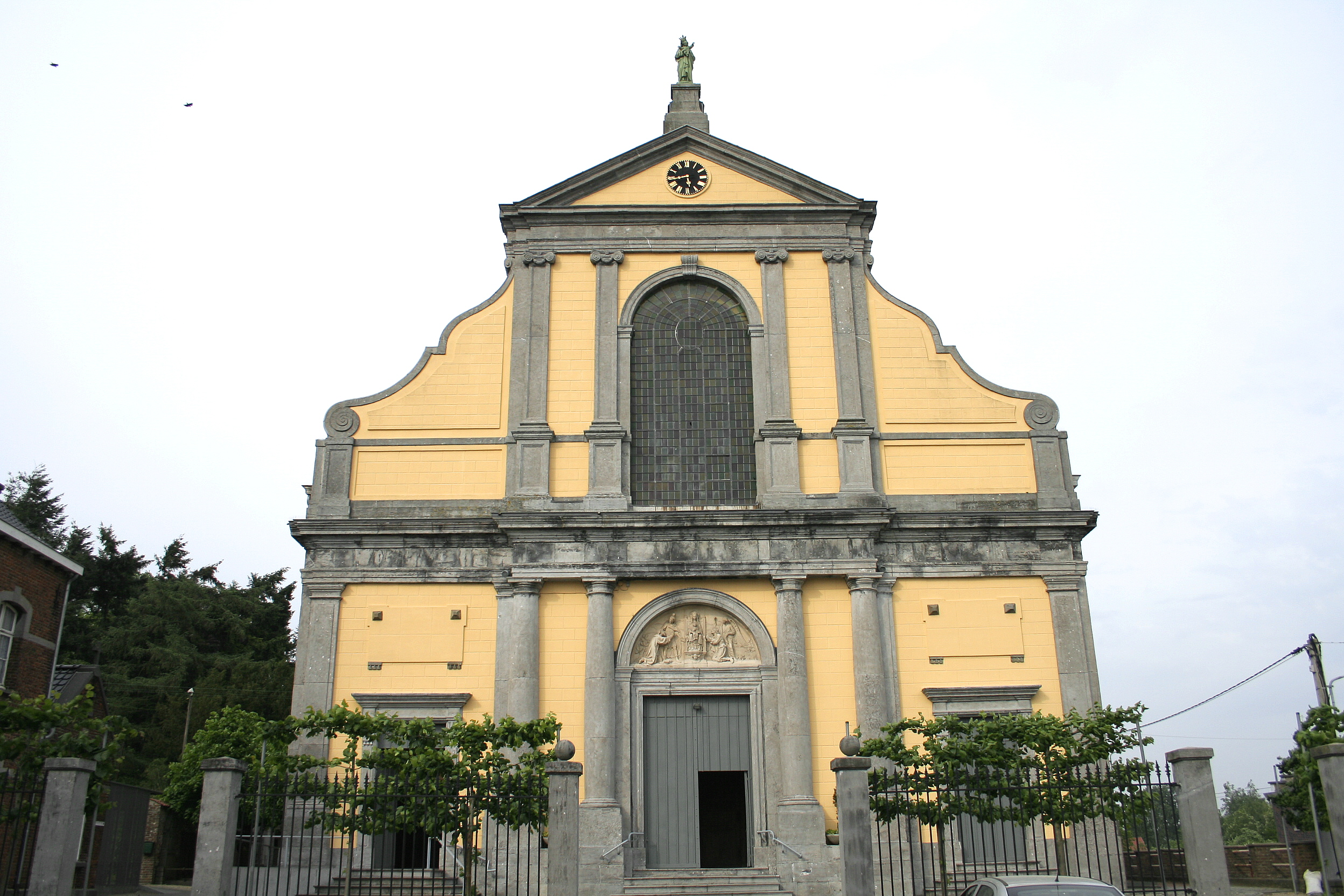 Tongre-Notre-Dame (Belgium), the smallest basilica of Belgium (1777).